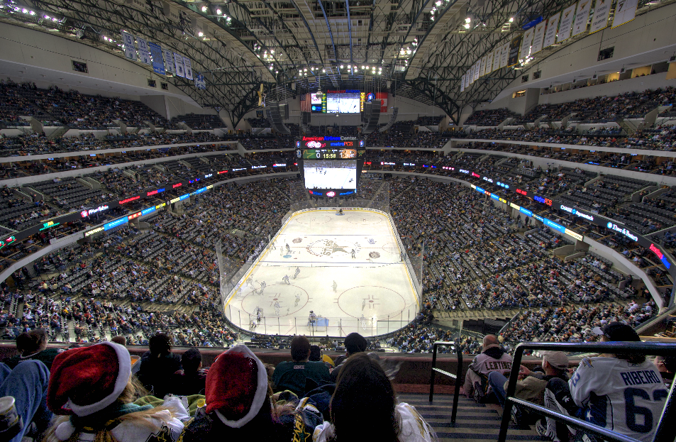 American Airlines Center during a Dallas Stars National Hockey League (NHL) game. This photo was taken on December 4, 2009.